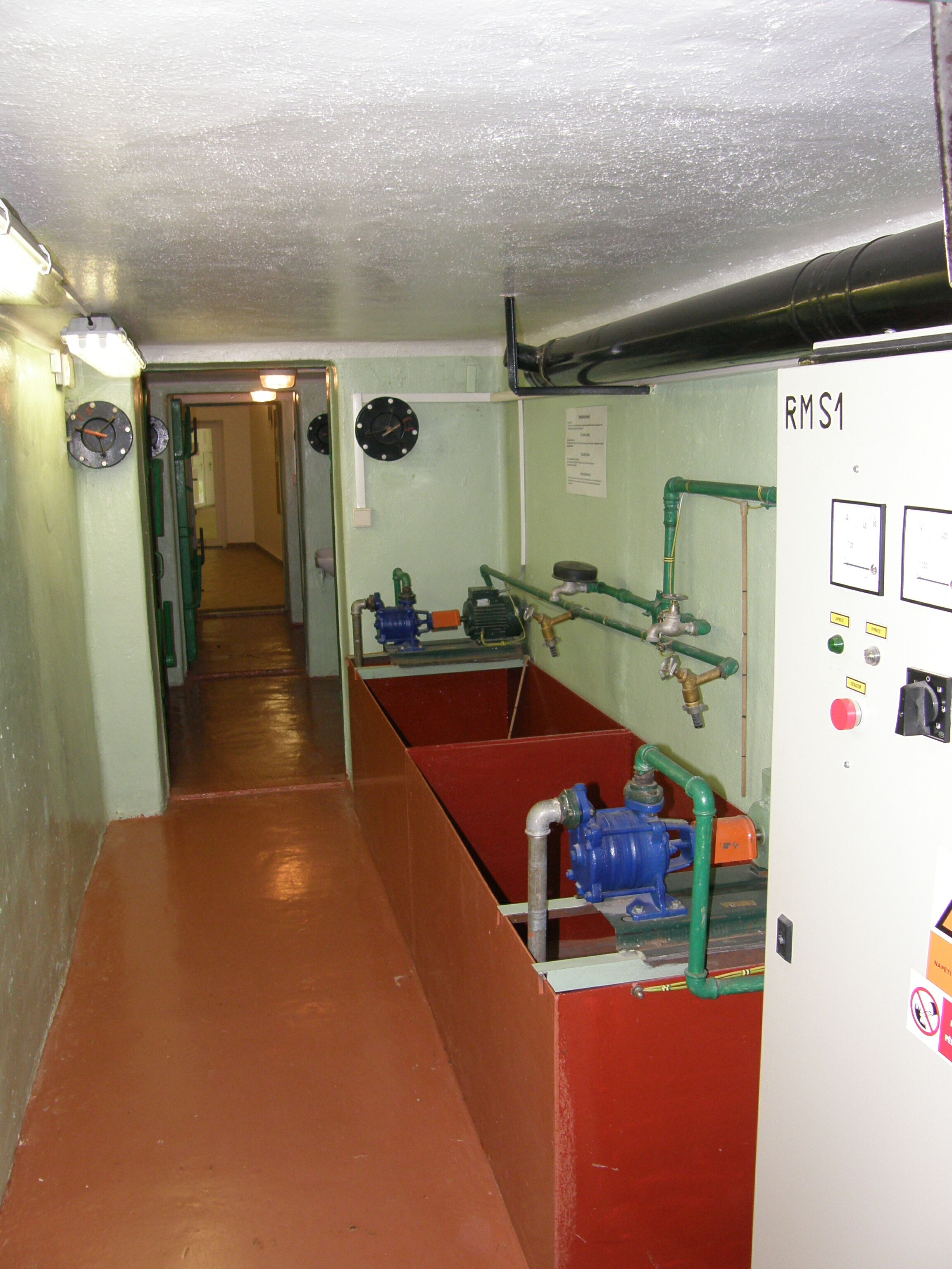 Cave Výpustek